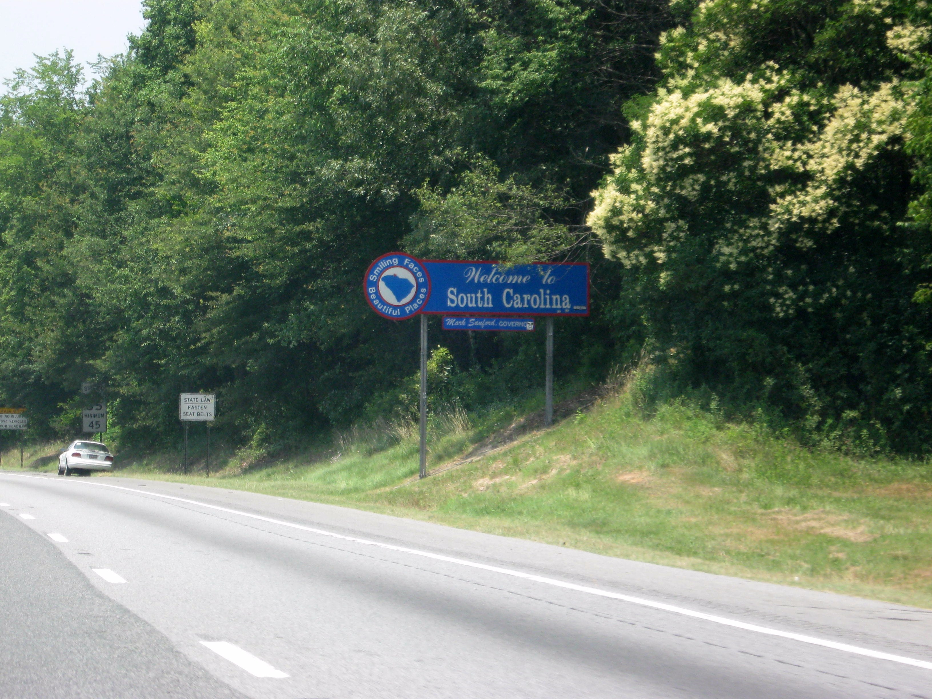 I-85 South Carolina Welcome Sign